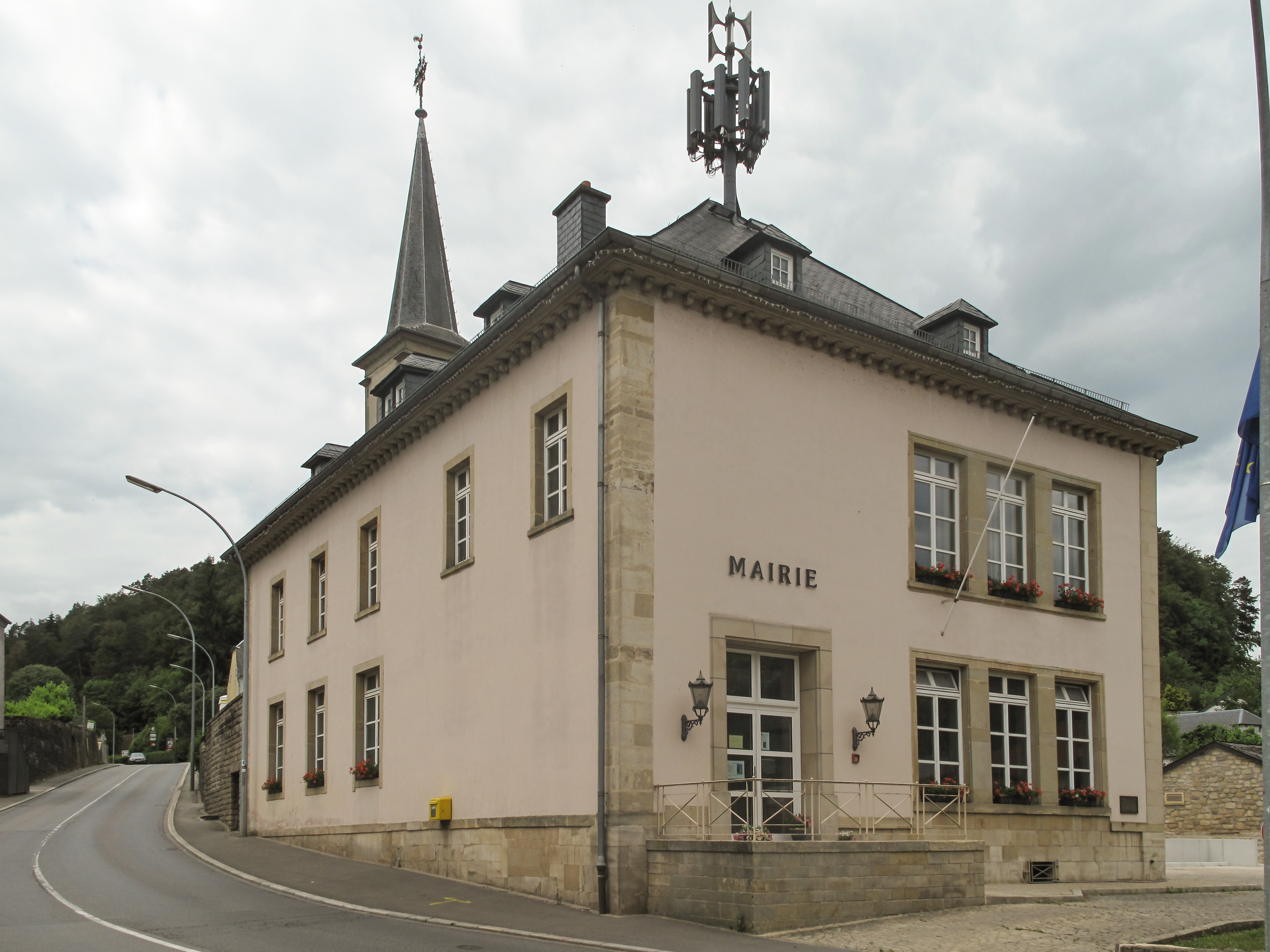 Kopstal, townhall